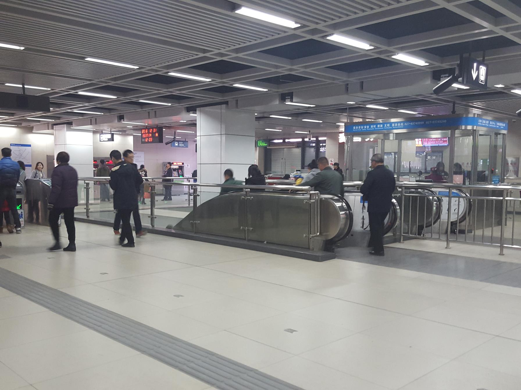 Concourse B of Jinyintan Station, Wuhan Metro